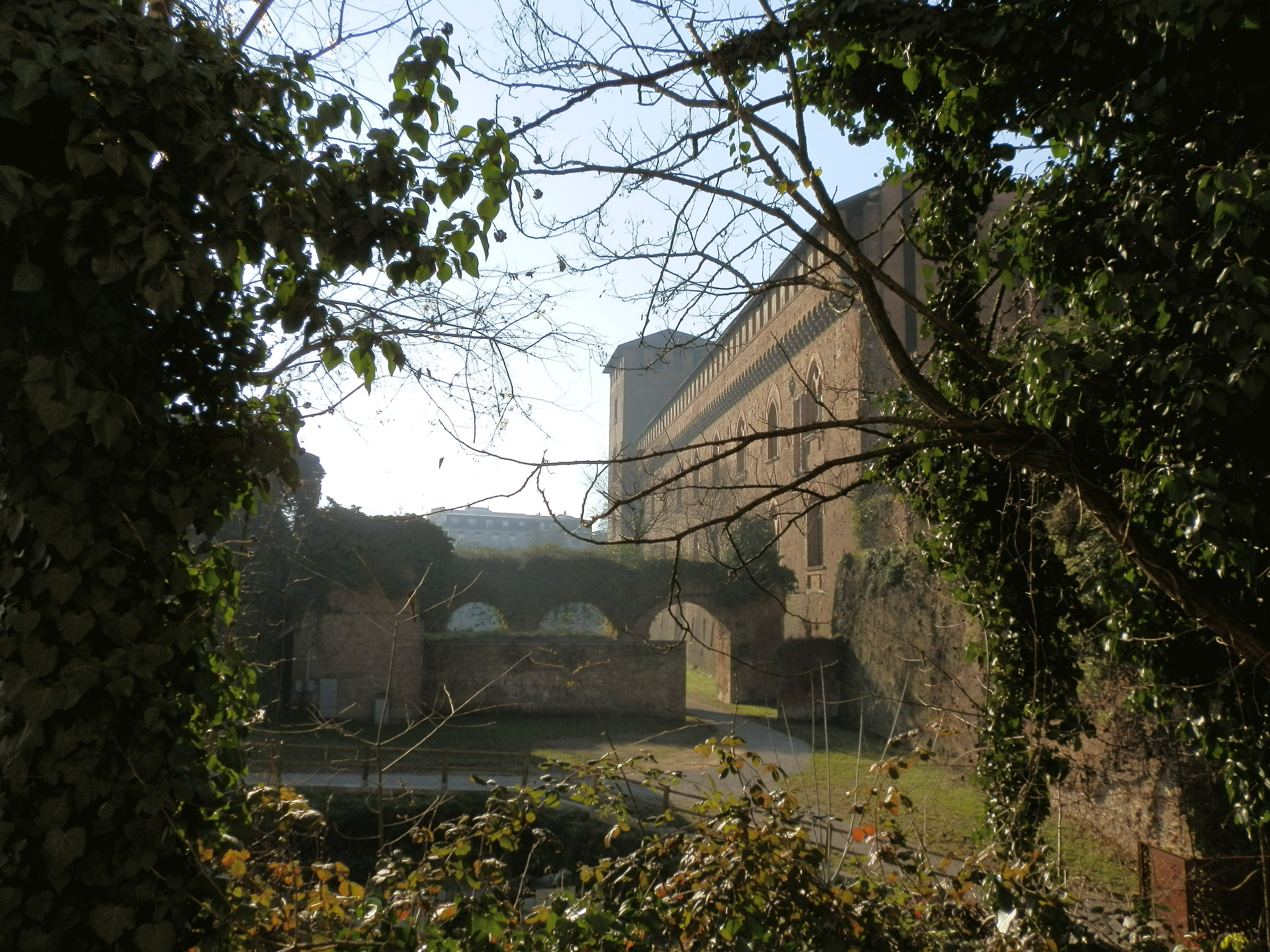 View of the Visconti Castle in the back.